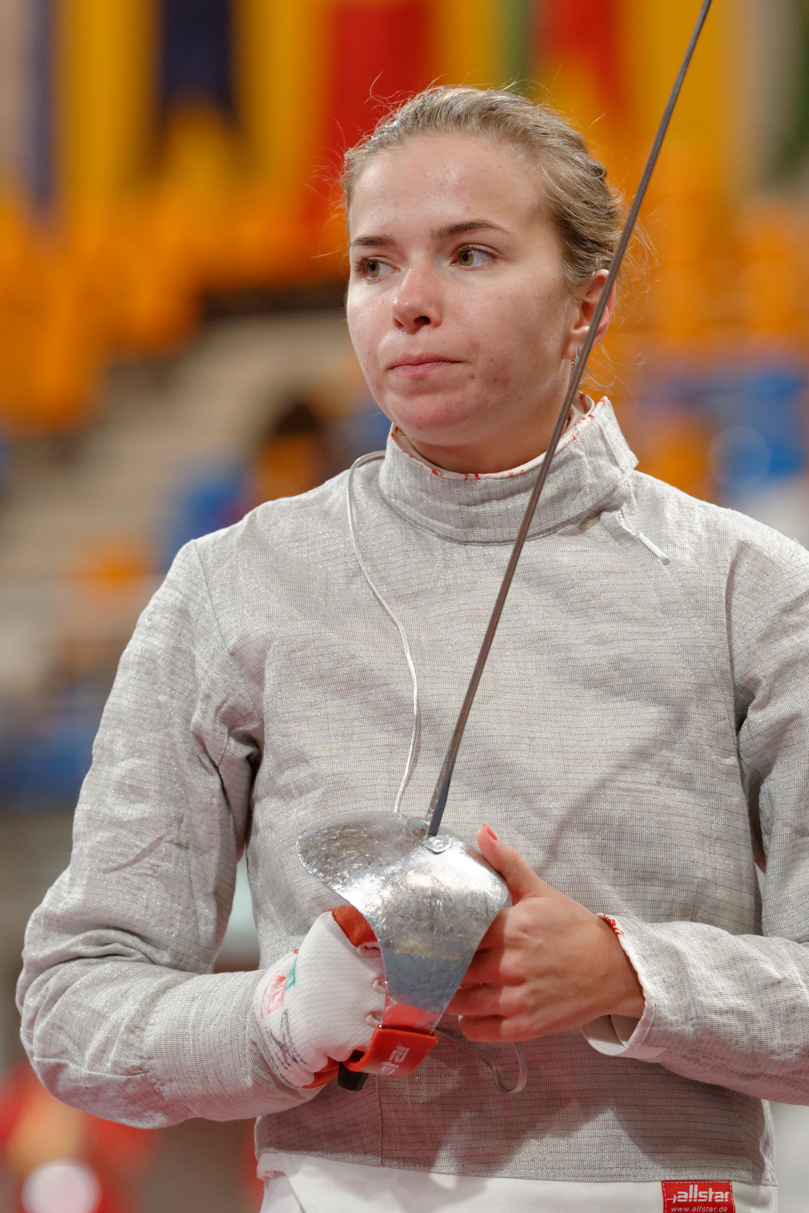 Russia's Yuliya Gavrilova at the 2014–15 Orléans World Cup in women's sabre.